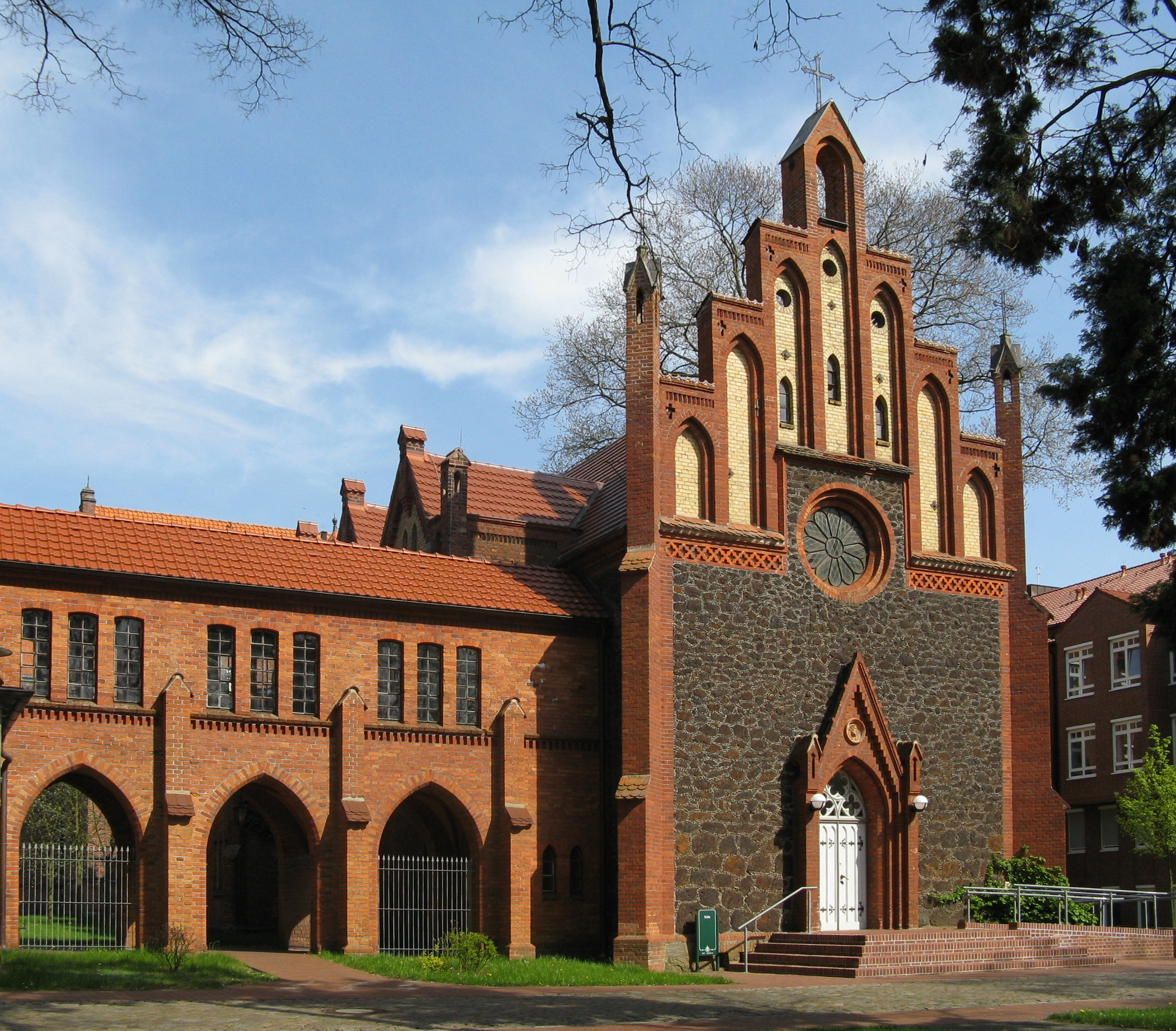 Church in Stift Bethlehem (hospital) in Ludwigslust, Mecklenburg, Germany